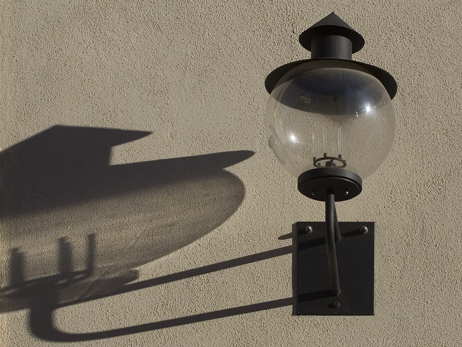 It is a copy of the first gas-lamp in Continental Europe, built by Wilhelm August Lampadius. (Freiberg, Saxony, Fischerstraße 6)